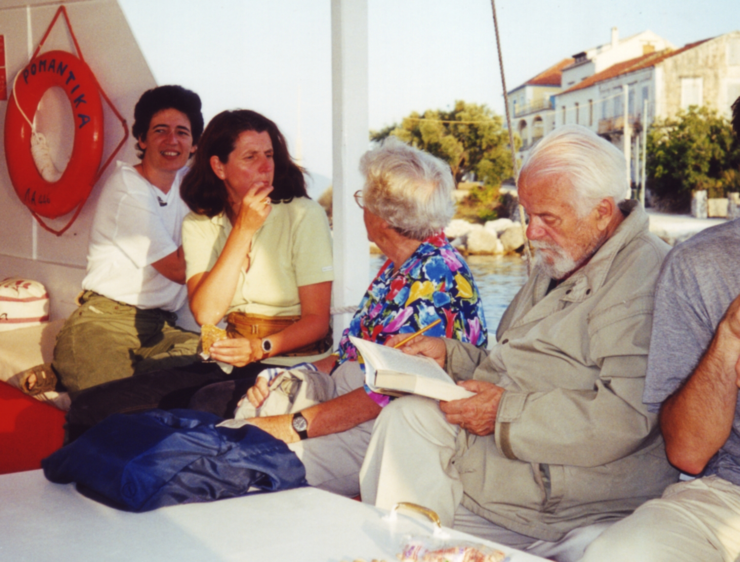 the german doctor of pediatrics, child and adolescent psychiatry Prof. Gerd Biermann, pioneer of child psychotherapy (reading, june 1999 in Fiskardo, island of Kefalonia, Greece)